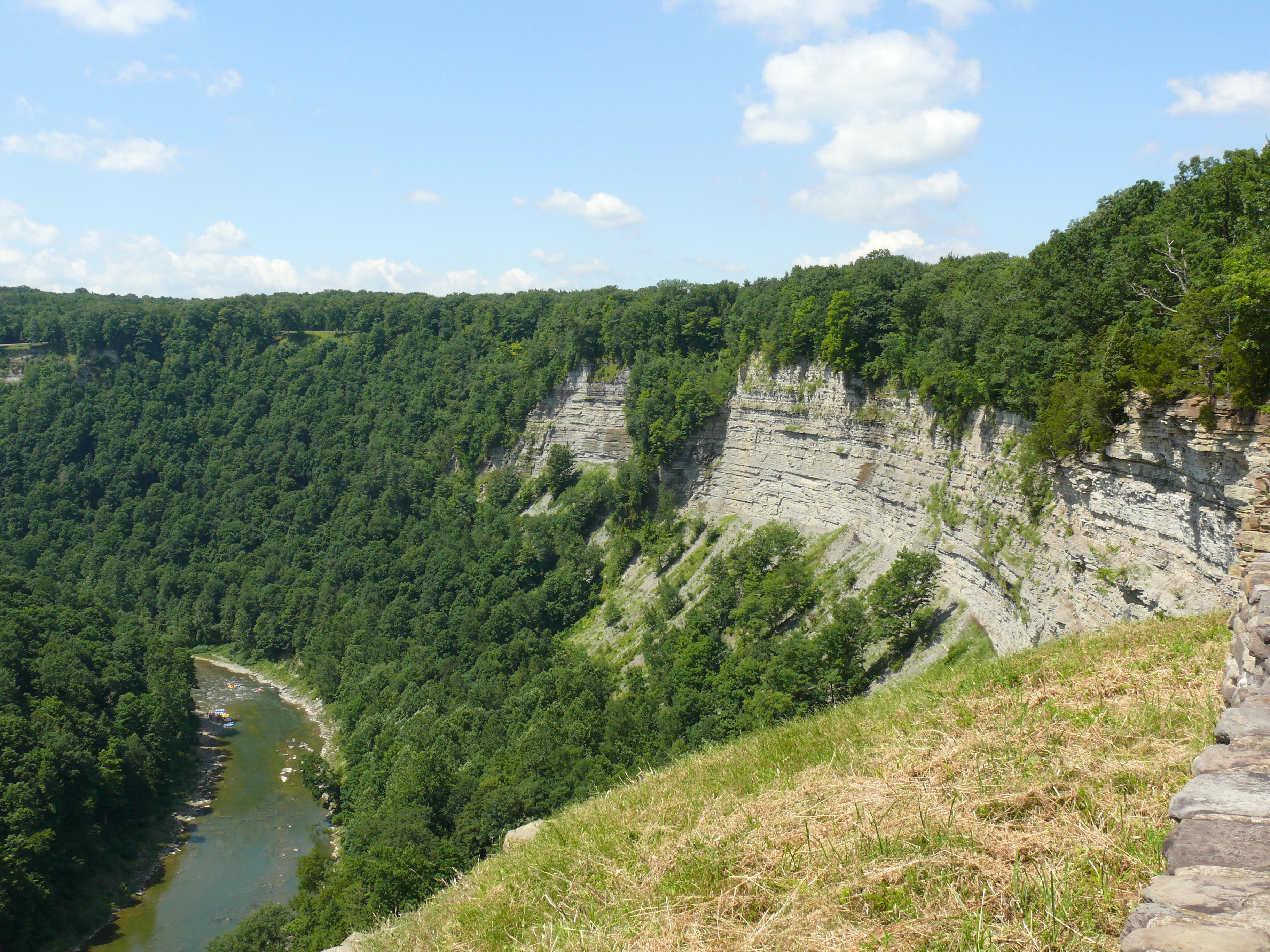 Genesee River in Letchworth State Park